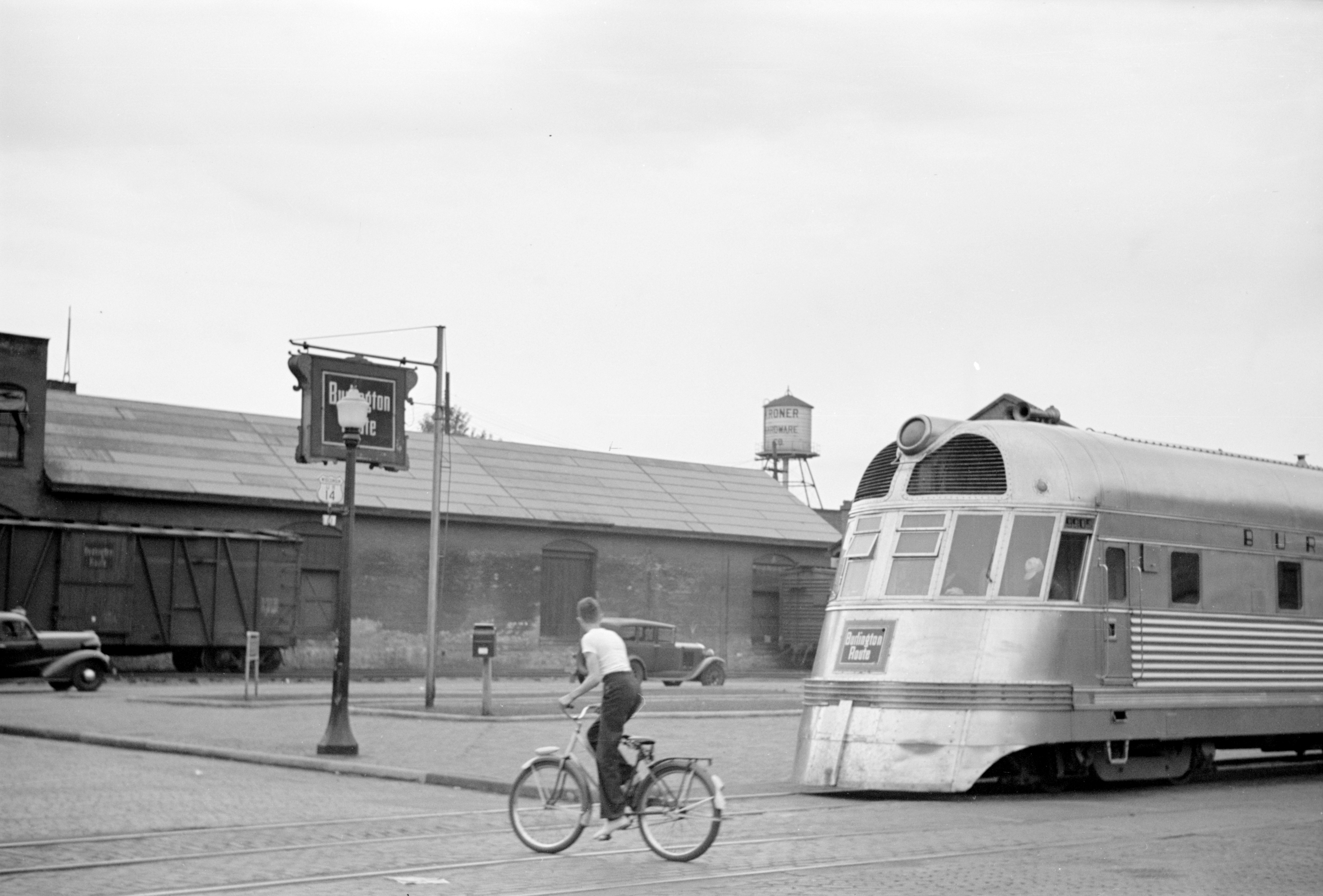 Photo of the Twin Cities Zephyr 9905, Zephyrus, in La Crosse Wisconsin. (Further enlargement of the image shows the train bears the number 9905).